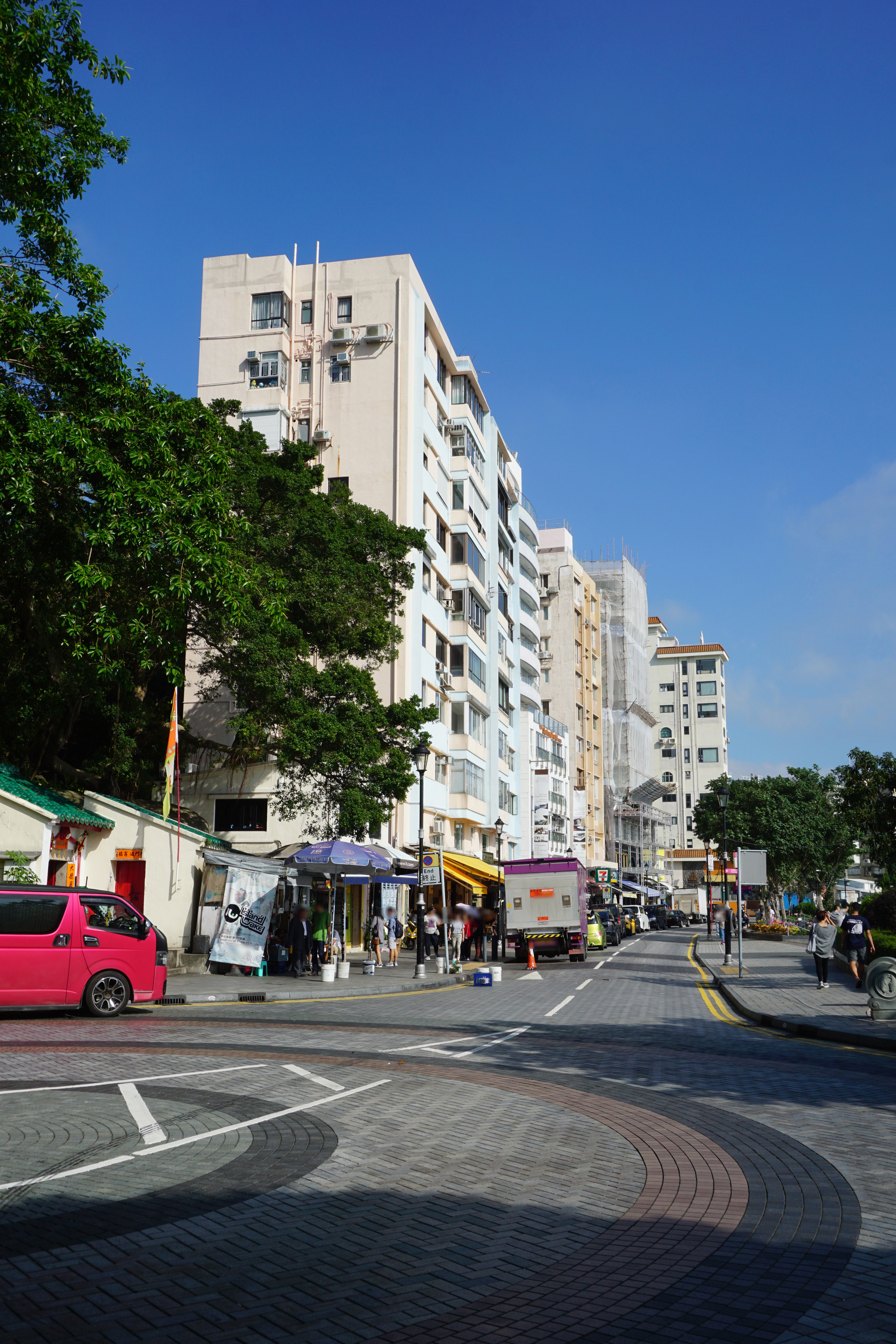 Main Street in Stanley, Hong Kong.